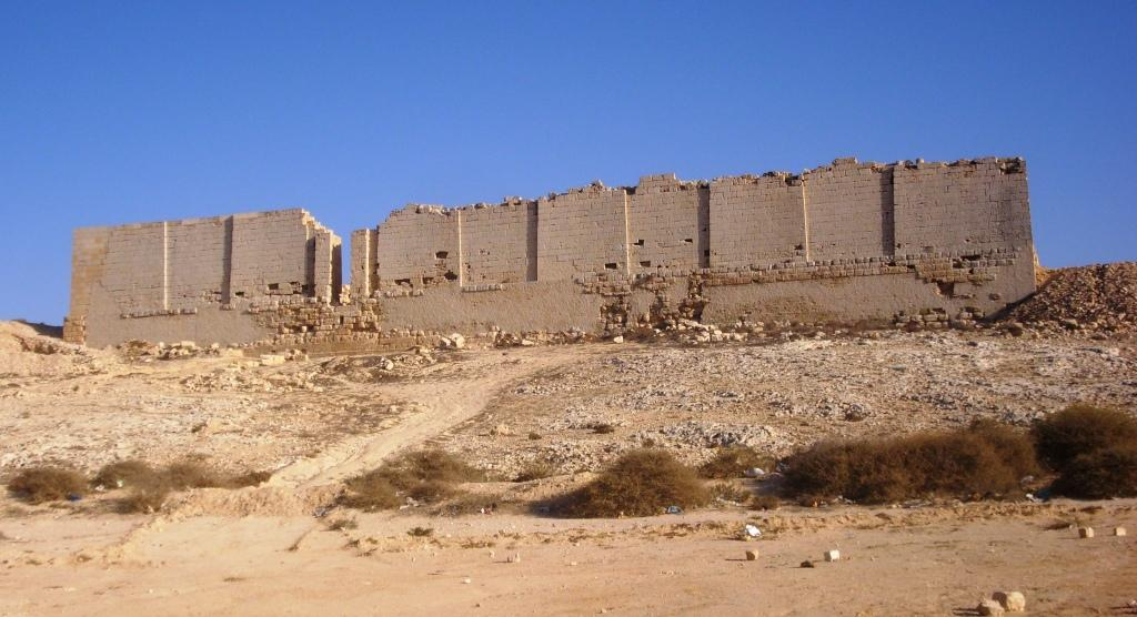 North facade of the Osiris Temple ruin in Taposiris Magna, west of Alexandria, facing the sea.